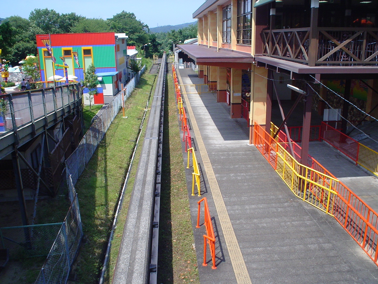 Monkey Park Monorail Line - Dōbutsuen Station